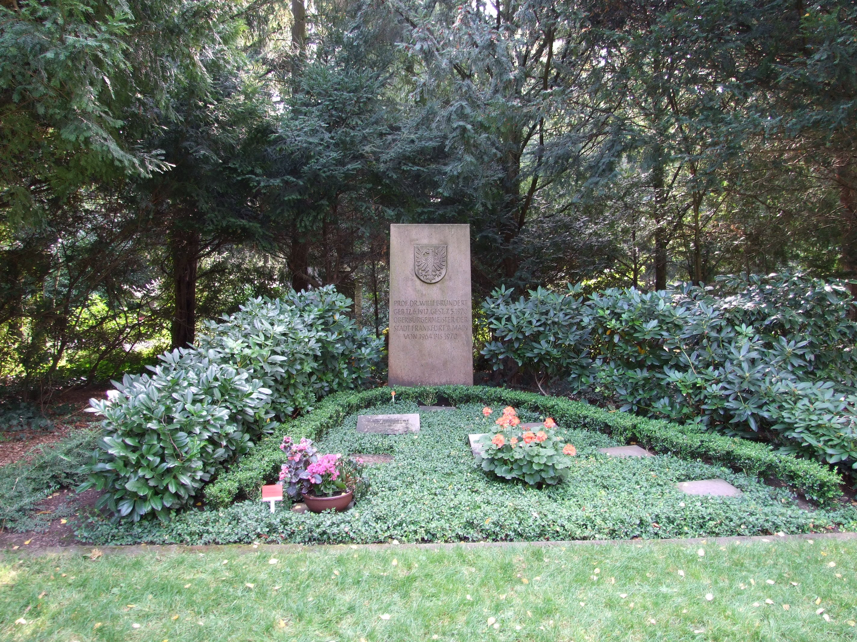 Grave of Willi Brundert, Hauptfriedhof, Frankfurt am Main, Germany